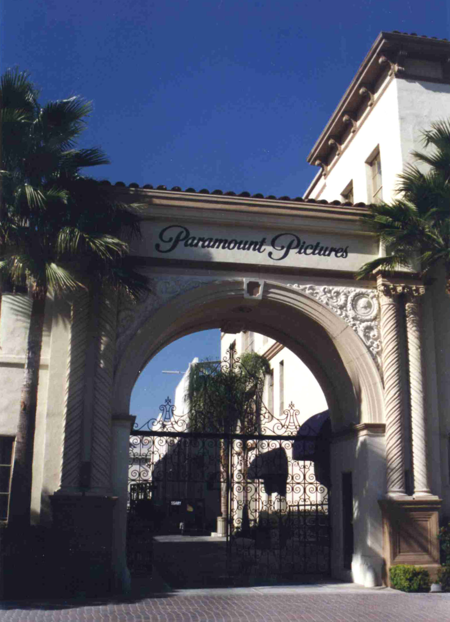 Paramount pictures famous entry door